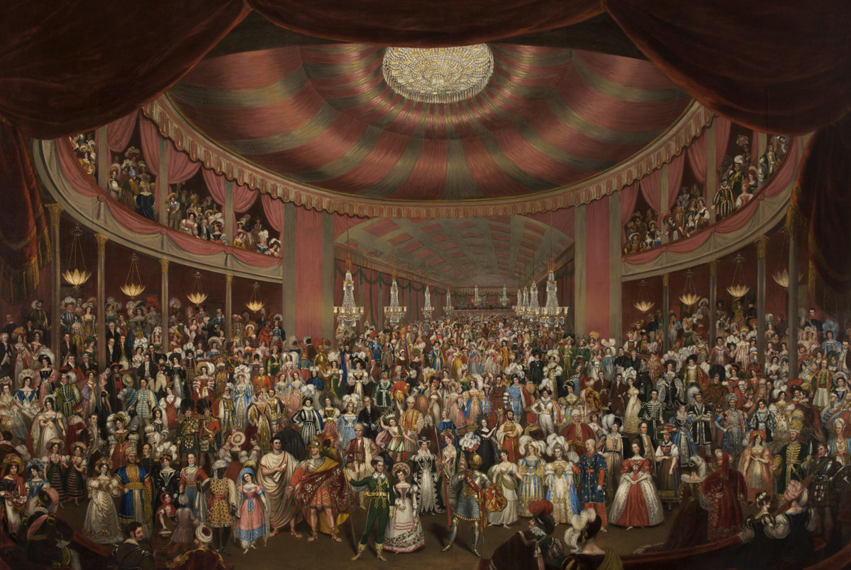 A Fancy Dress Ball, Manchester; the ball was held at the close of the Manchester music festival of 1828 at the Assembly Rooms in Mosley Street. The picture shows 400 guests.